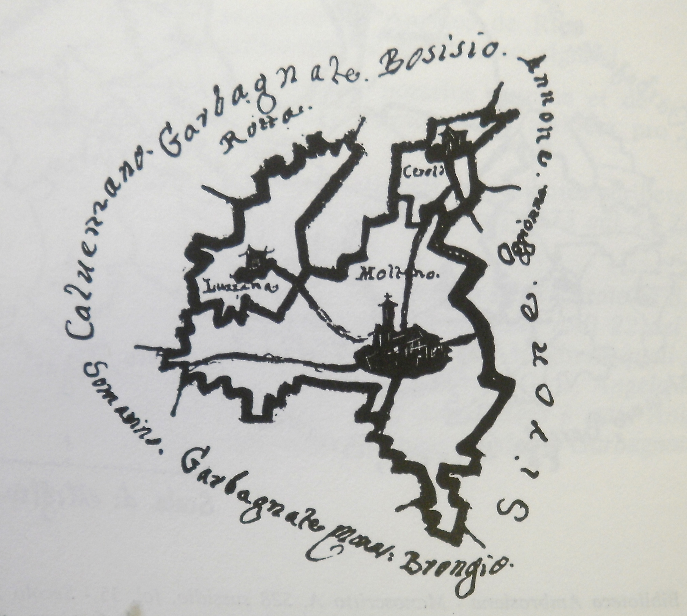 Drawn map of Molteno and the neighboring towns of Luzzana and Ceroldo, Italy, dating from the 1700s. Now residing in the Biblioteca Ambrosiana in Milan